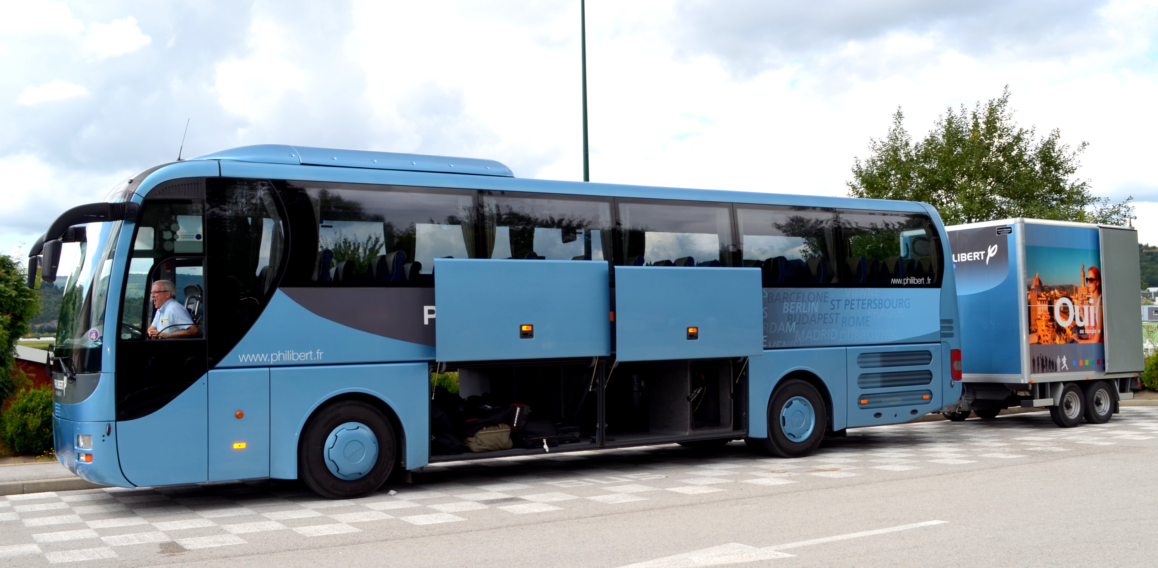 Tour de l'Ain 2014 - Stage 4 (finish, Arbent). Object location46° 16′ 46.2″ N, 5° 40′ 40.8″ E